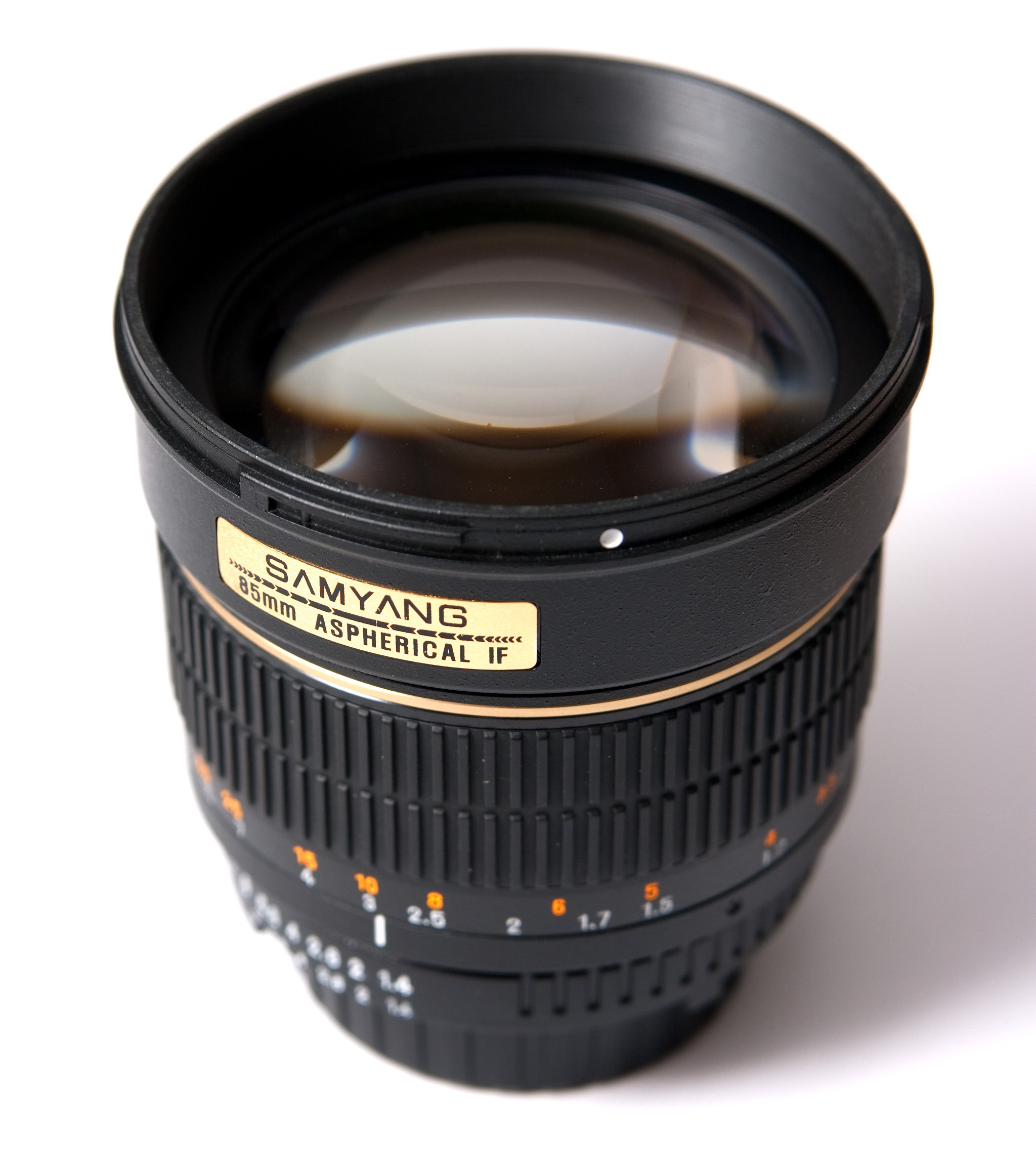 A Samyang 85mm f/1.4 camera lens.